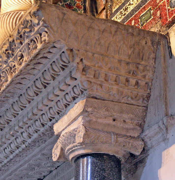 Basilica of Santa Prassede in Rome: Zenon chapel, entrance door, roman cornice reused and sculpted on the sides.